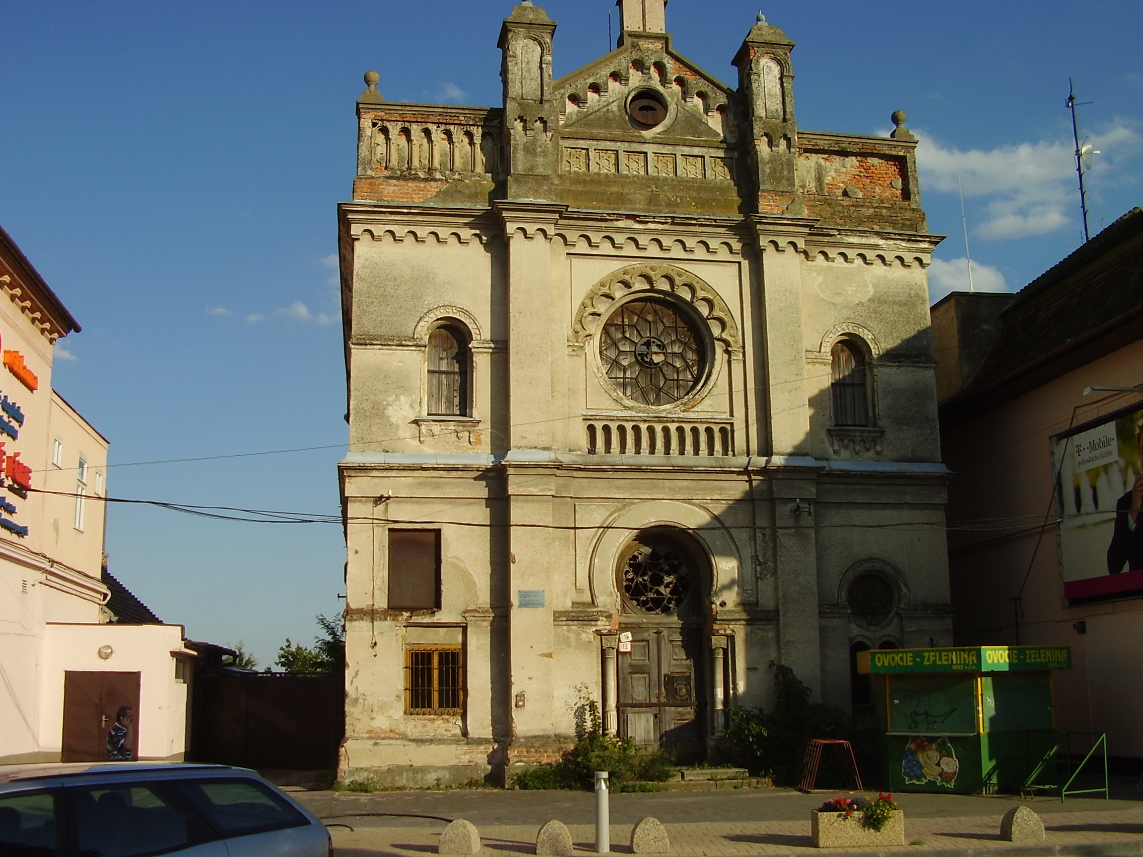 Synagoge Senec This medium shows the protected monument with the number 108-2275/0 in the Slovak Republic.